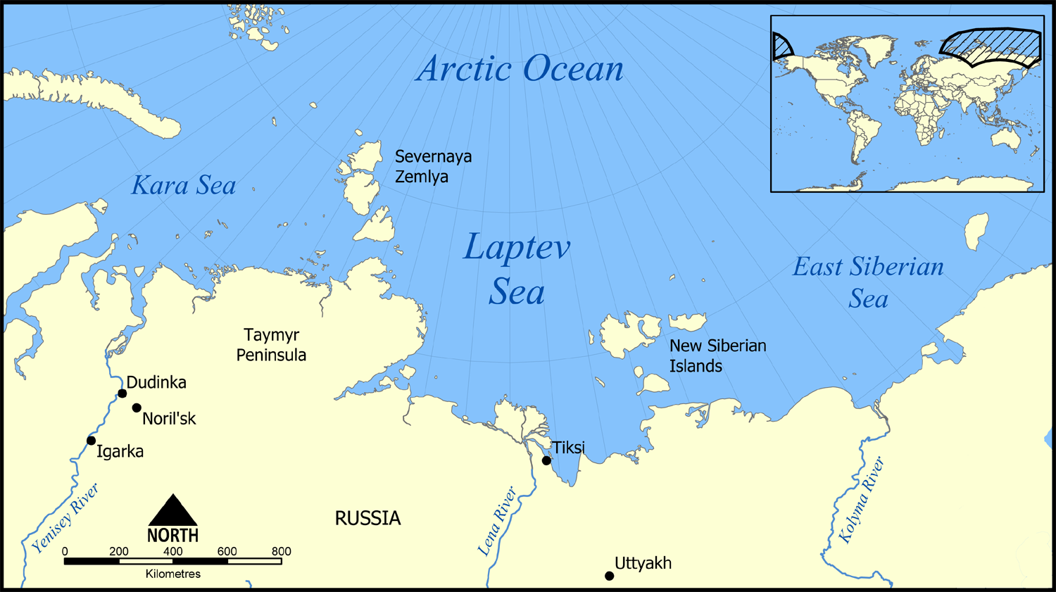 Location of the Laptev Sea north of Siberia, Russia. The sea is part of the Arctic Ocean, and neighbours the Kara Sea and East Siberian Sea.